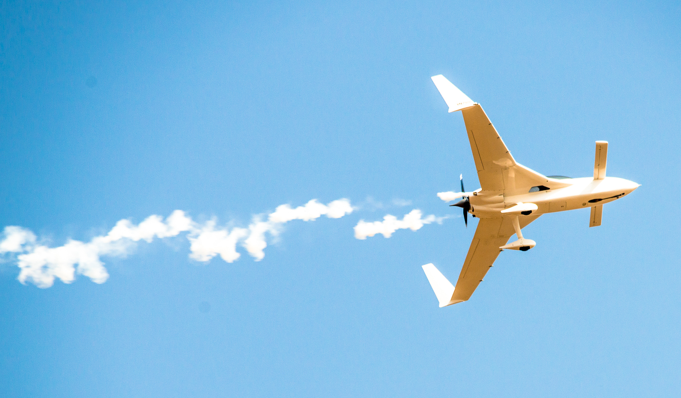 A Rutan Long-EZ home built aircraft flying at the AERO INDIA 2013